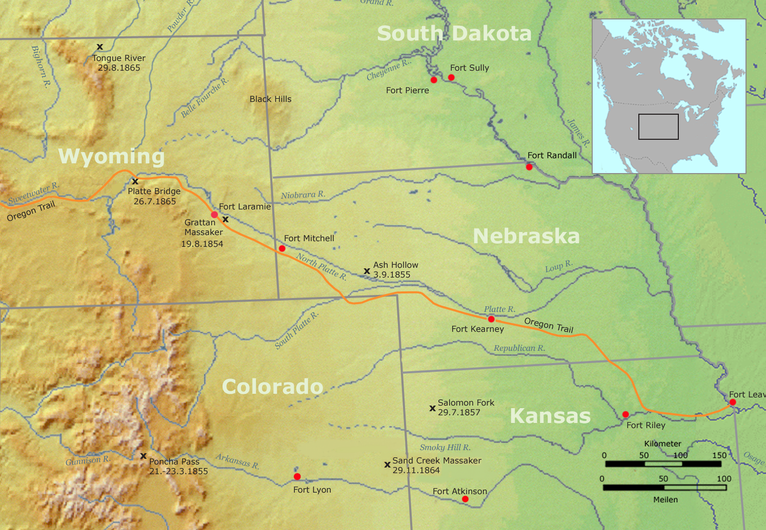 Location of the Grattan Massacre and other battles of the Great Plains between 1850 and 1865.